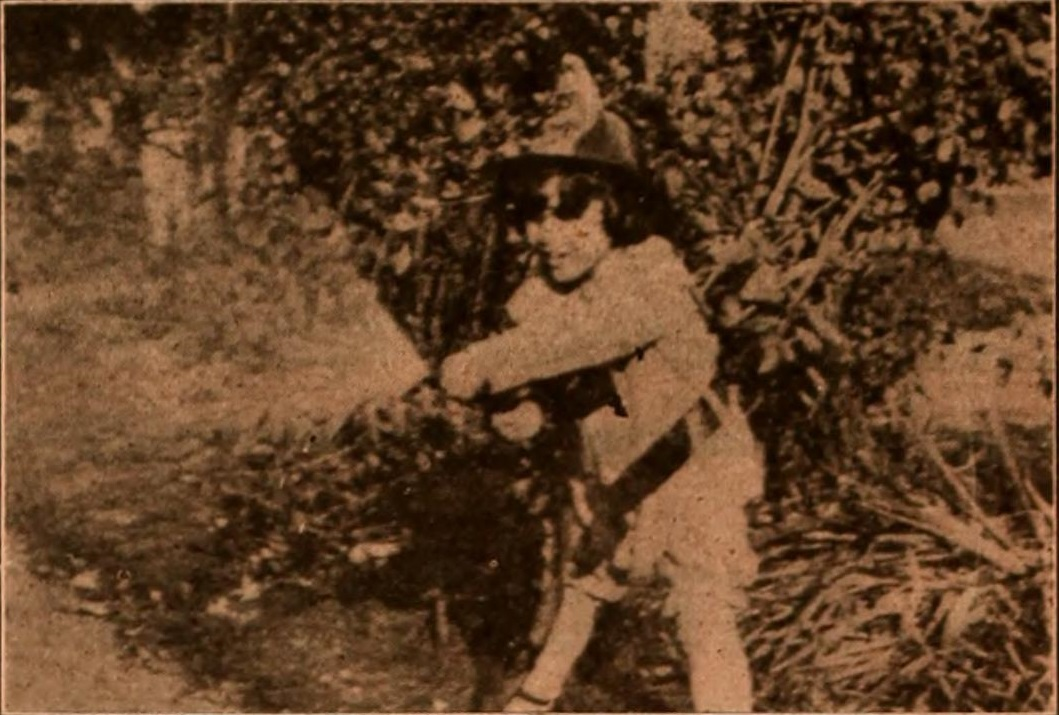 A film still or publicity photo for The Little Fire Chief by the Thanhouser Company. Released in 1910.